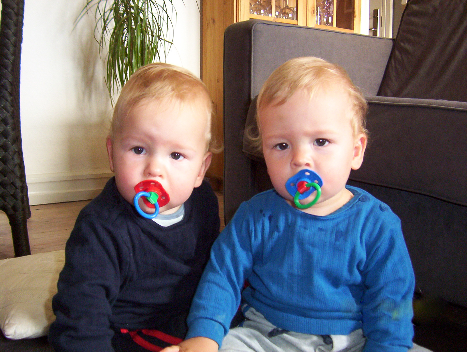 Identical twins